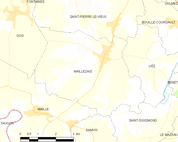 Map of French municipality Maillezais